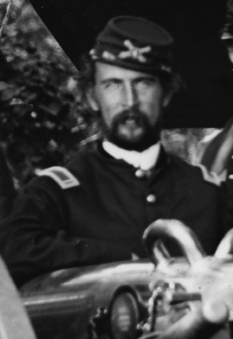 First Lieutenant and Medal of Honor winner Rufus King, Jr., of combined Batteries A & C, 4th U.S. Artillery, September 1863.